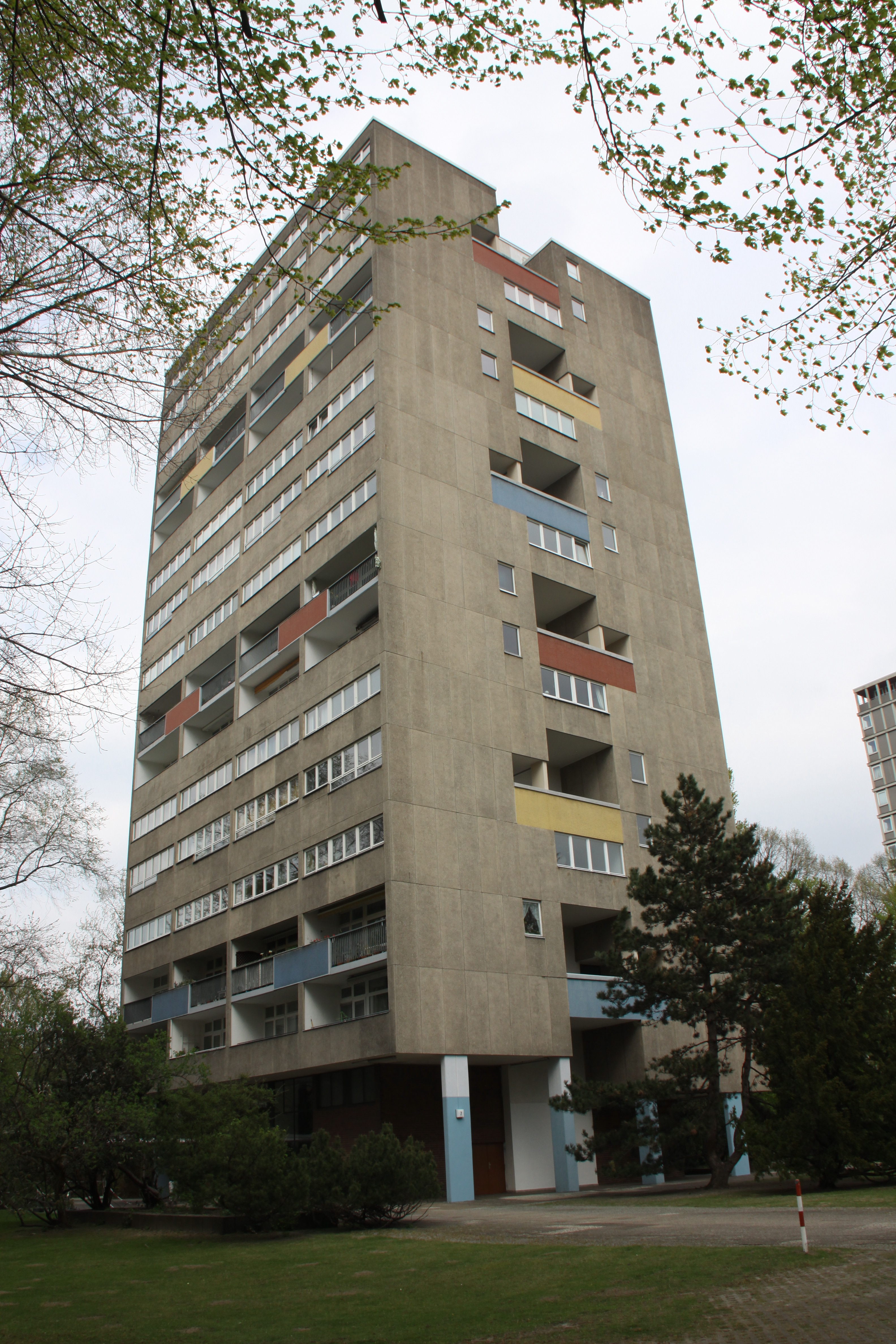 The van den Broek & Bakema tower at Hansaviertel, Berlin. The side façade shows the half-a-level displacement between right and left part of every apartment.